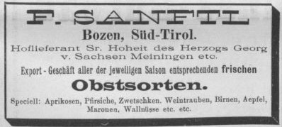 Advertisement from 1897 (Bozen, South Tyrol)